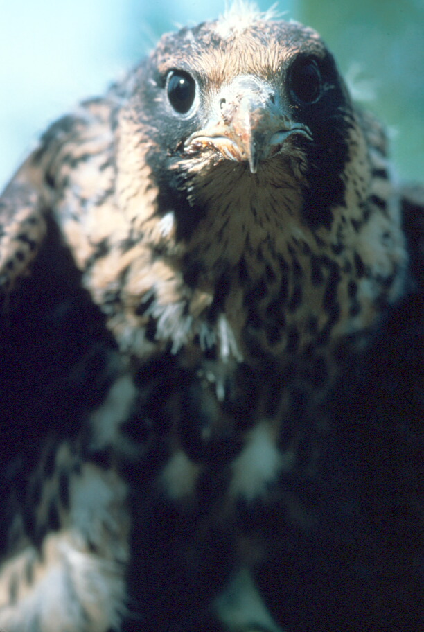 A young peregrine falcon (Falco peregrinus) peers intently at the camera